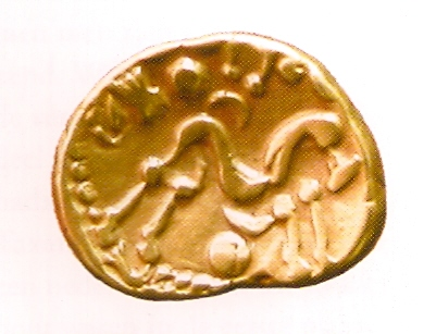 Gold stater of the Ambiani (area of Amiens), a rainbow cup coin minted appr. 50 BC, found in 1999 at Lieshout, the Netherlands and stored at the Provincial Depot Excavation Finds North Brabant